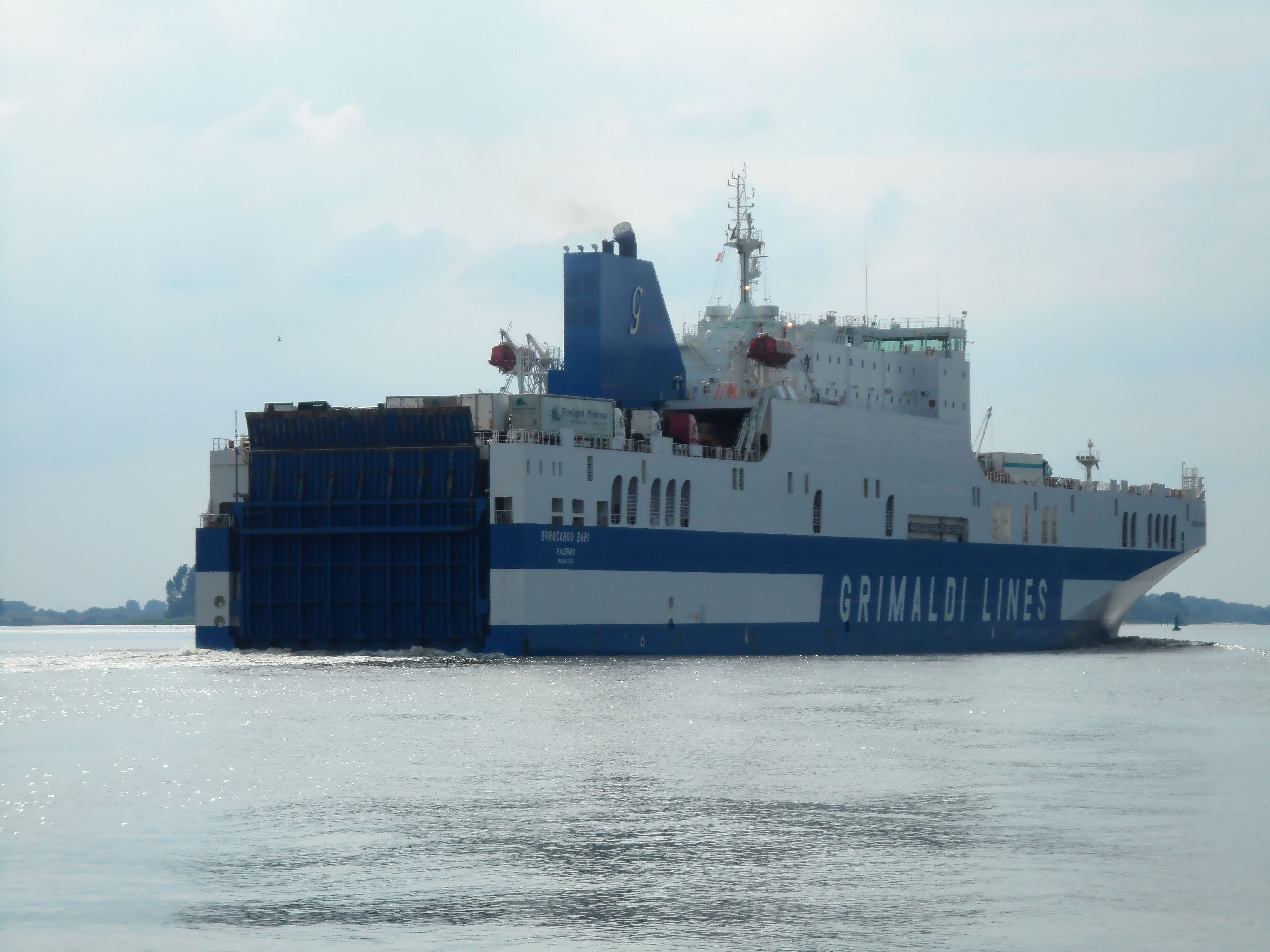 Grimaldi Lines Eurocargo Bari on the river Elbe in July 2014